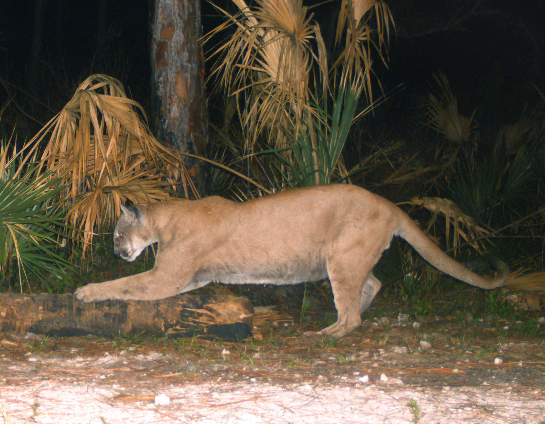 The Florida Panther National Wildlife Refuge trail camera study provides eyes and ears for biologists to study panthers and their favorite food sources remotely. In just 6 months of the study, the refuge has already captured more than 570 images/video of Florida panthers and more than 15,000 images and video total. Learn more at Photo: USFWS.